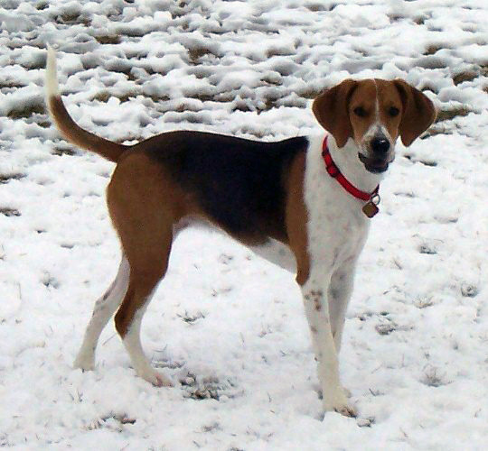 A tricolour Harrier.